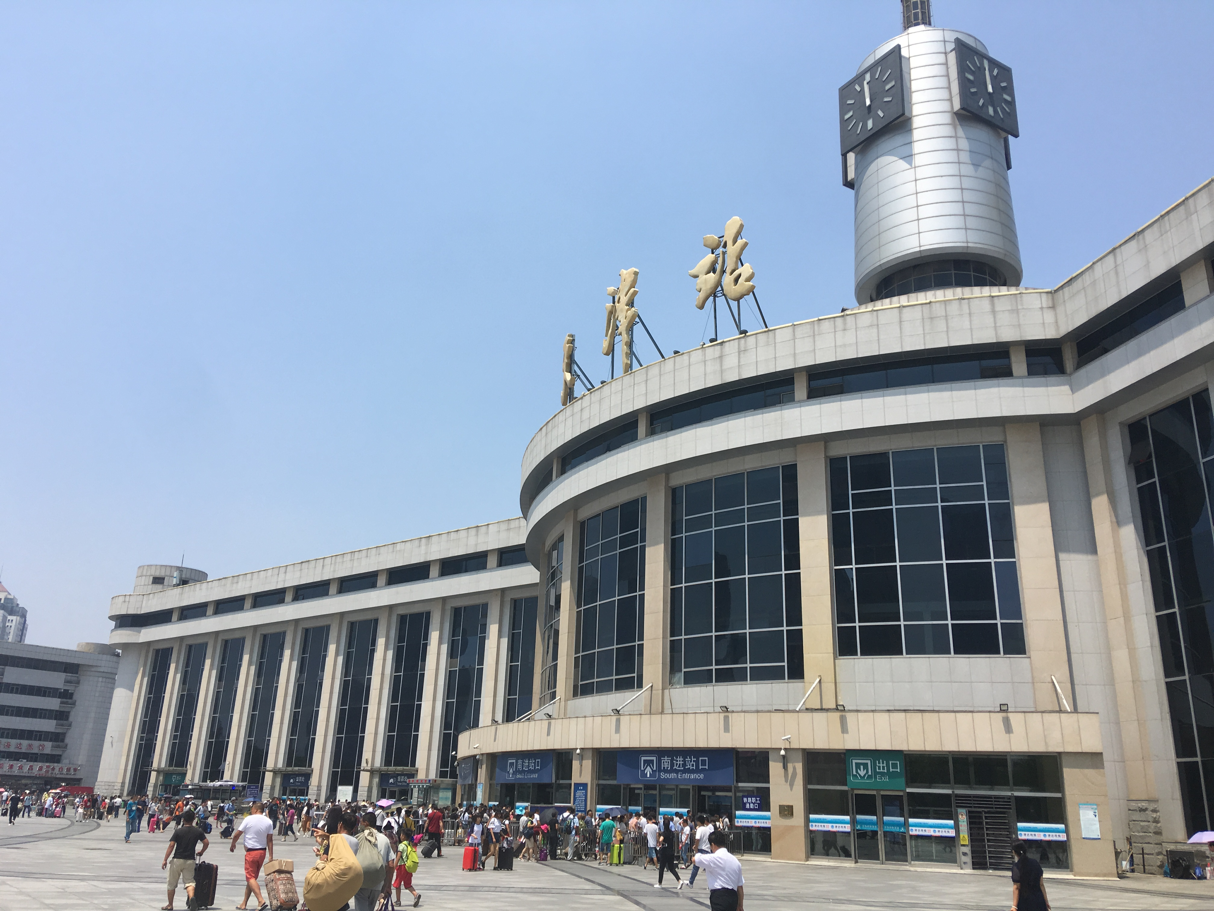 Tianjin Railway Station